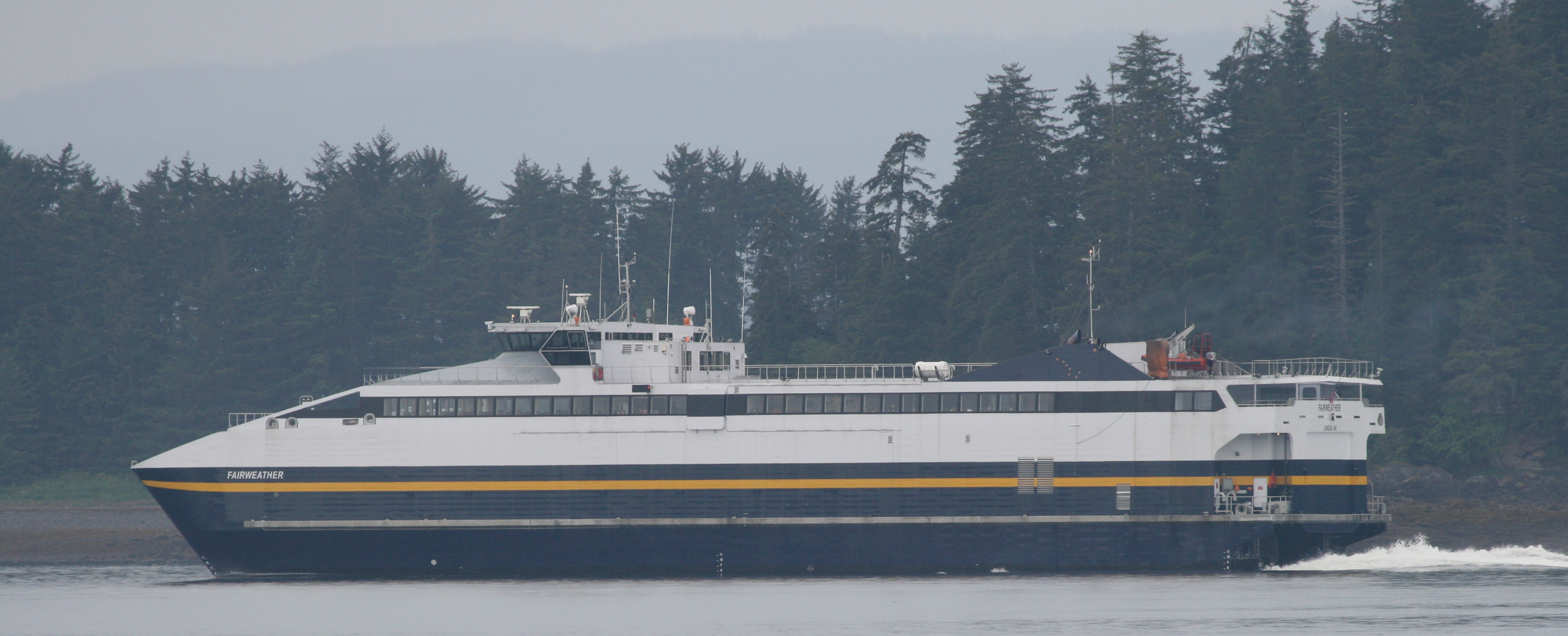 MV Fairweather underway